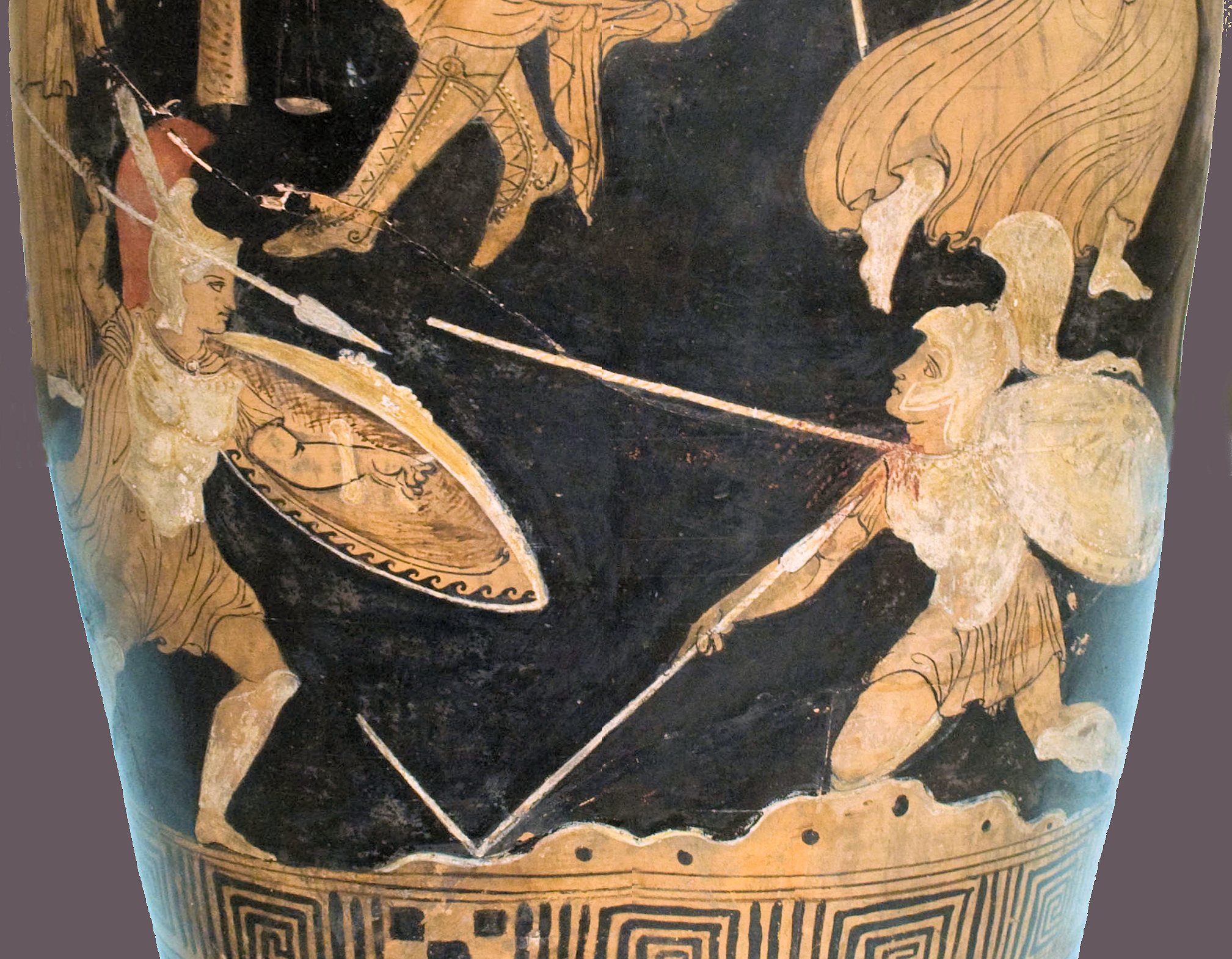 Combat between Achiles and Memnon, Grave amphora southern Italy, 330 BC